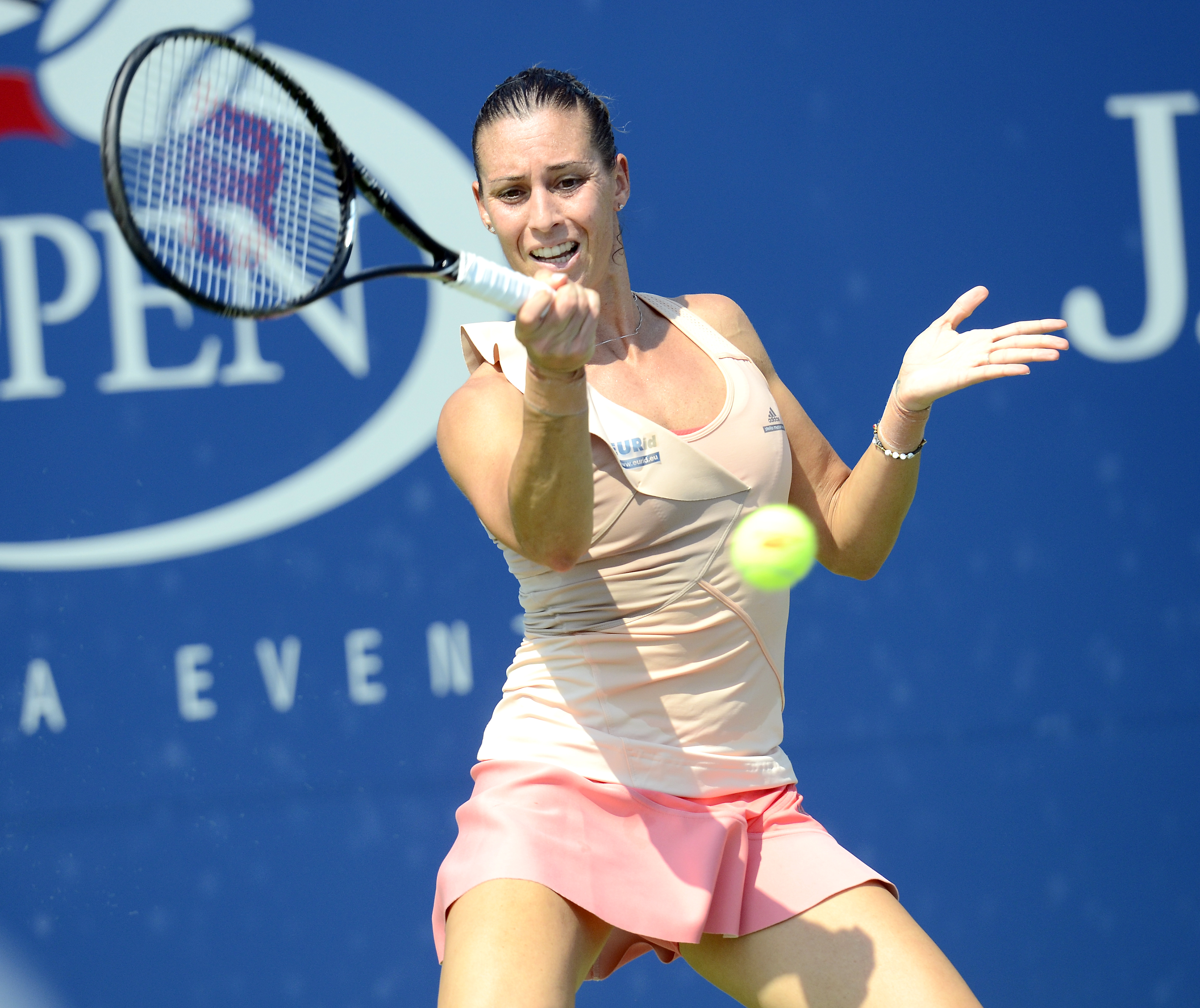 August 26, 2014 Queens, NY Flavia Pennetta (ITA) def. Julia Goerges (GER)